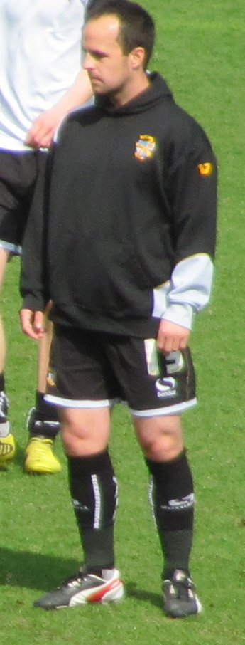 Pictured during the 2-2 draw between Port Vale and Northampton Town on 20 April 2013.